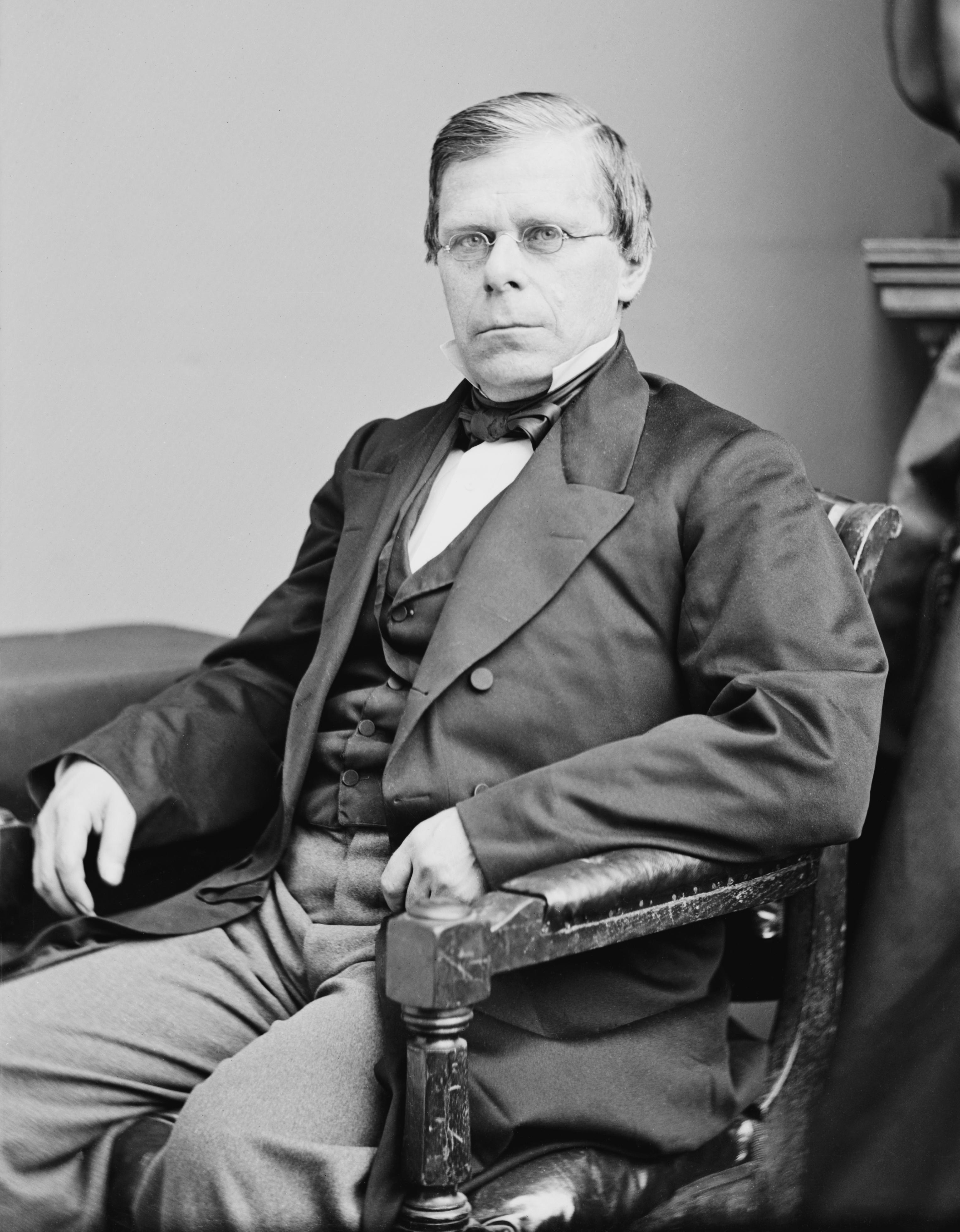 Israel Washburn, Jr.. Library of Congress description: "Hon. Israel Washburn"